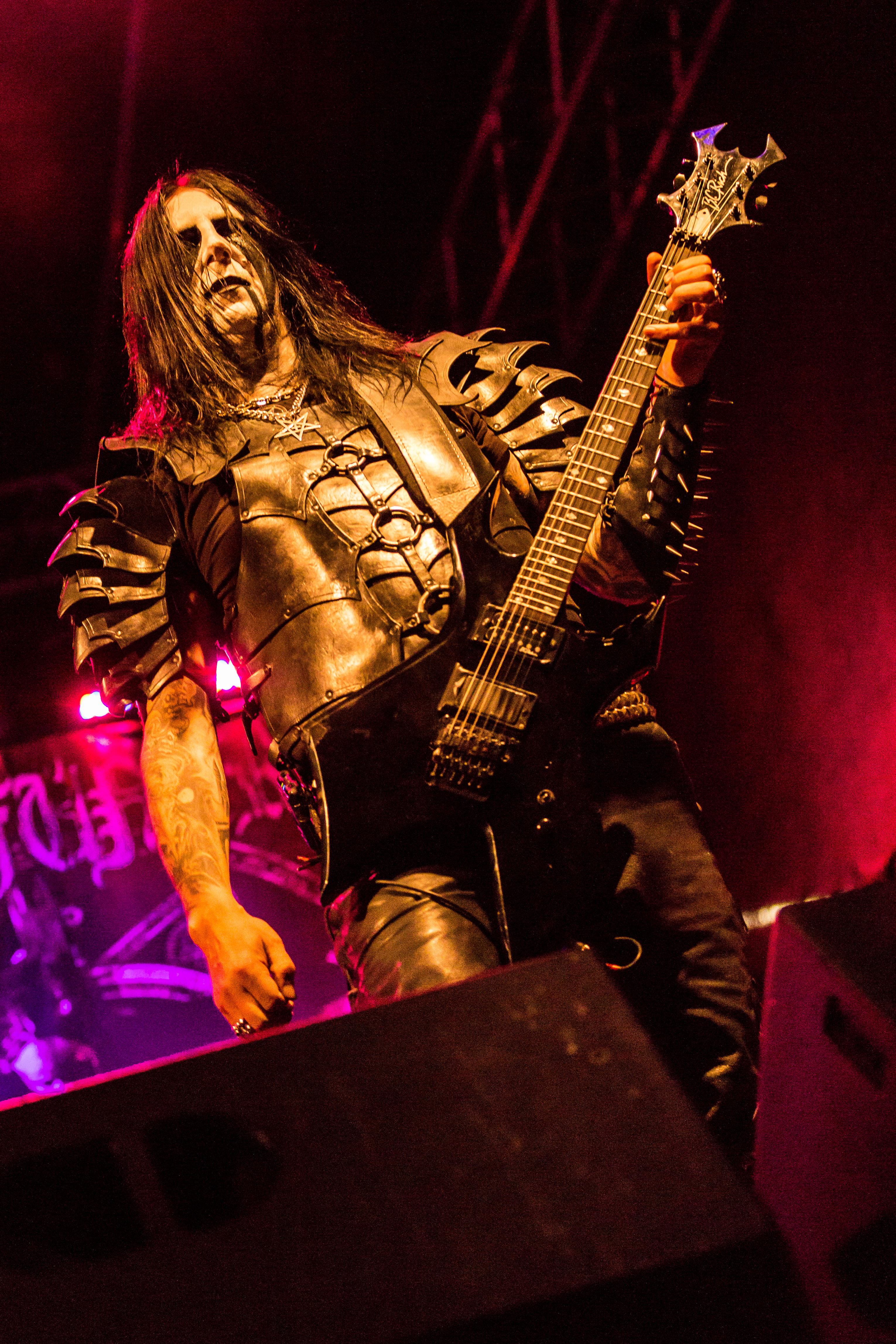 The Swedish black metal band Dark Funeral at the Rock unter den Eichen Open Air 2017 in Bertingen/Germany.